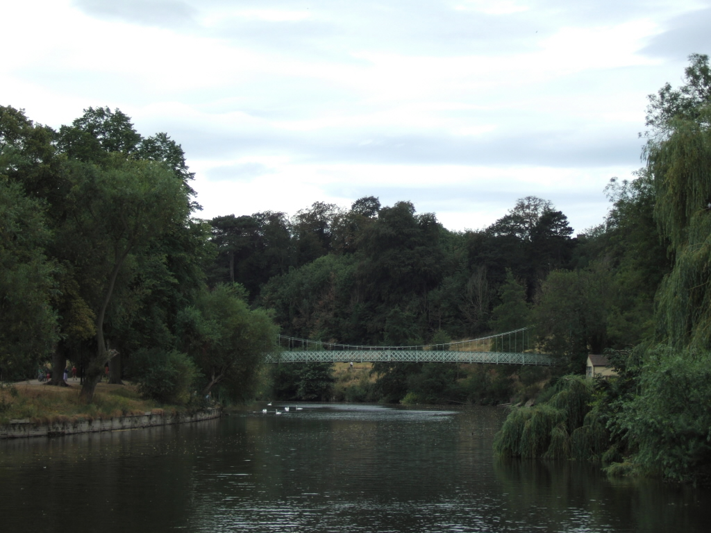 Porthill Bridge in Shrewsbury. (Looking downstream - the town centre is on the left, Porthill is on the right.) Photo taken by Dpaajones on the 29th July 2006.